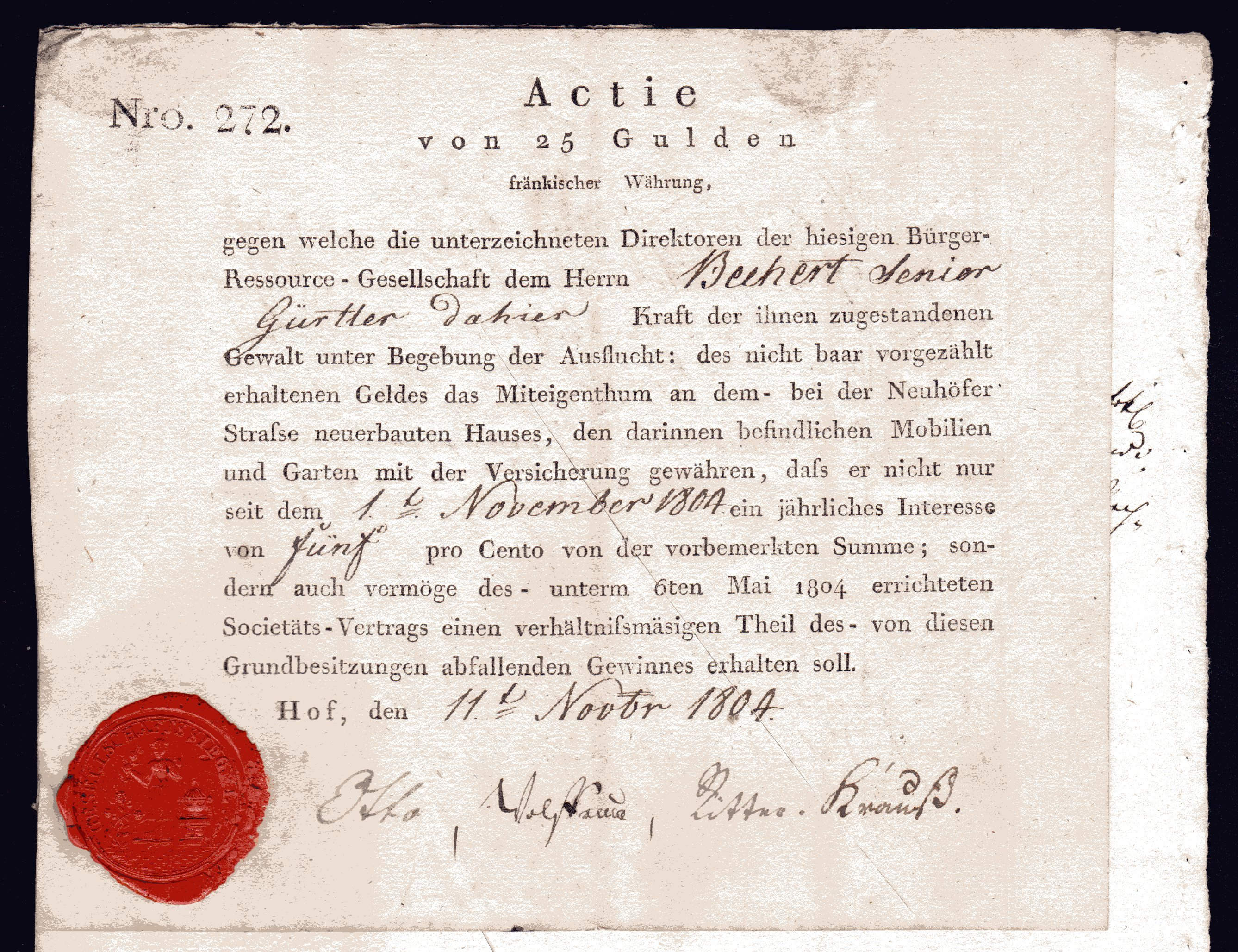 Share of the Bürger-Ressource-Gesellschaft, issued 11. November 1804